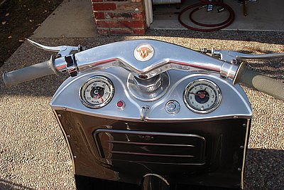 Photo that I took of my 1957 Maicoletta scooter's dashboard.